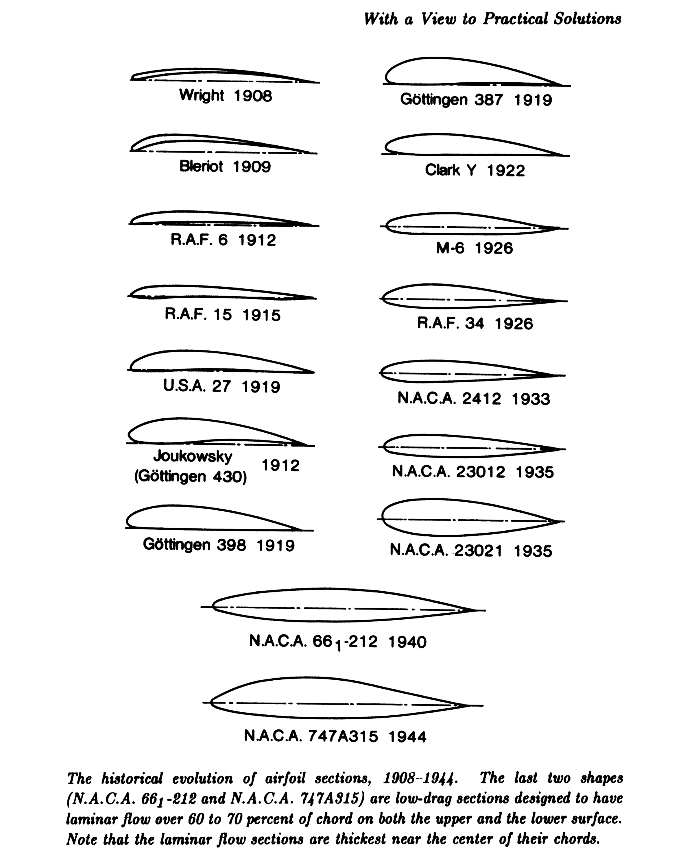 The historical evolution of airfoil sections, 1908-1944. The last two shapes are low-drag sections designed to have laminar flow over 60 to 70 percent of chord on both the upper and lower surface.